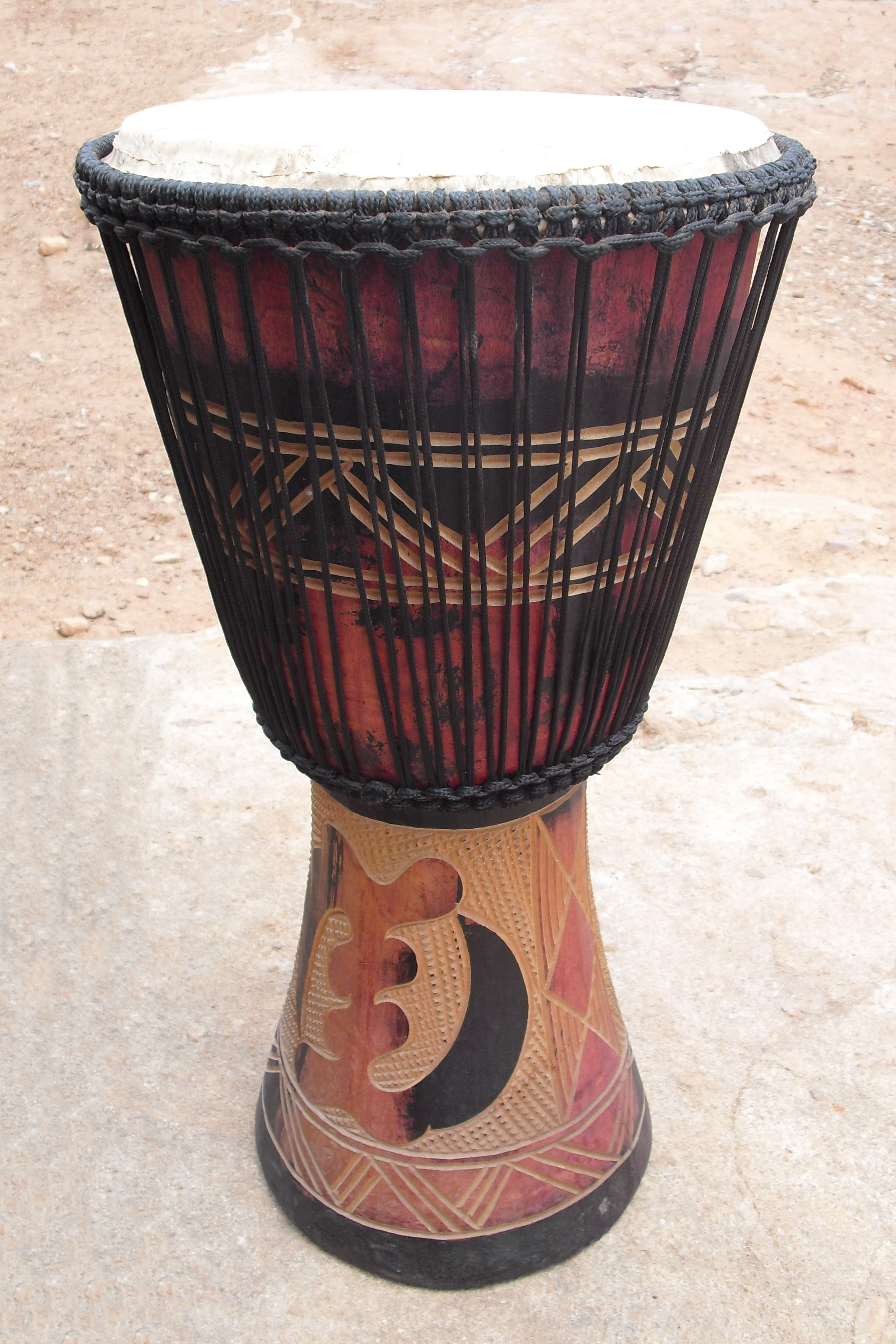 Djembe drum carved at Ahwiaa, the wood carving craft village in the Ashanti Region, Ghana